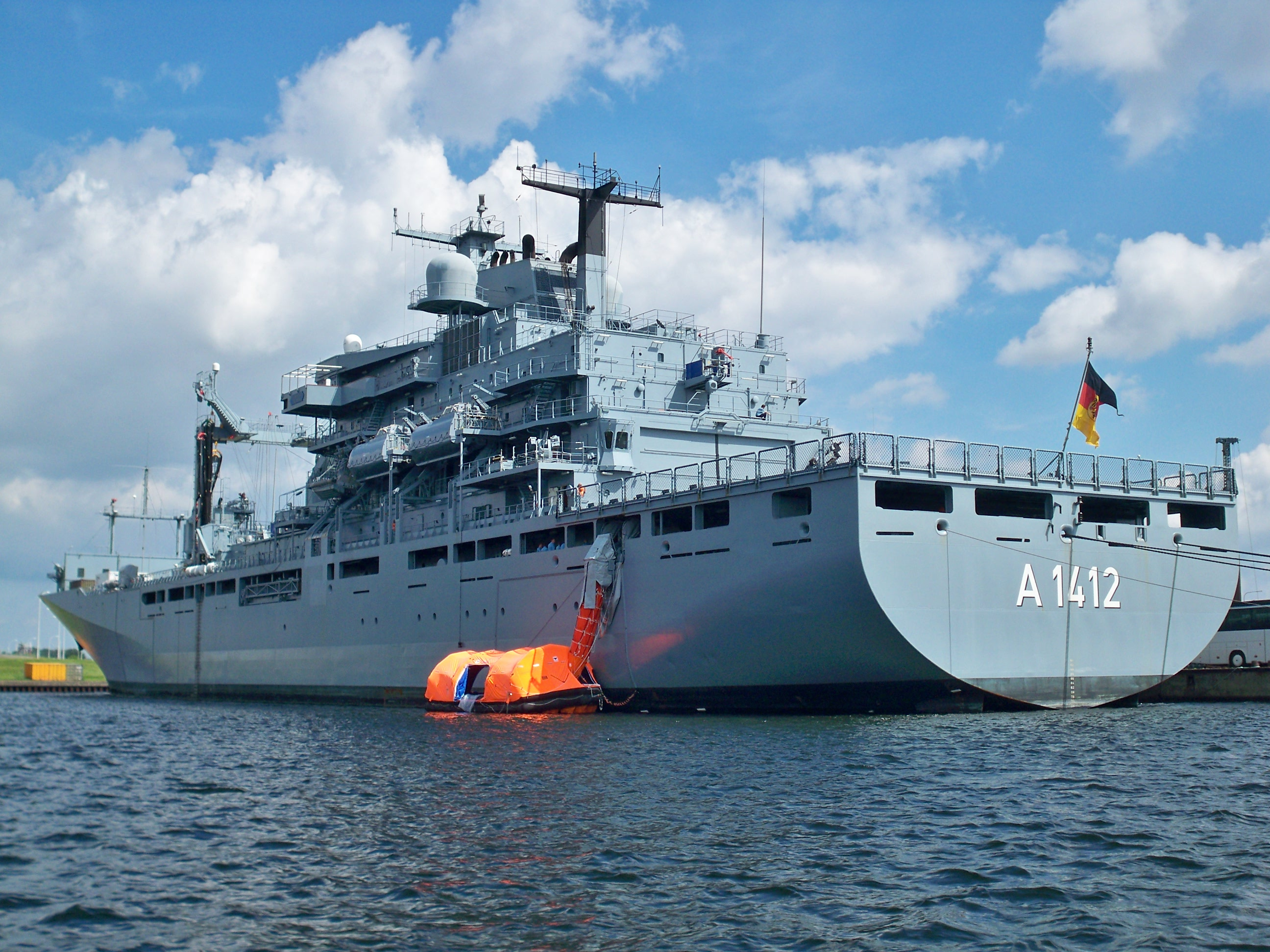 Activated marine evacuation system (MES) of German combat store ship Frankfurt am Main